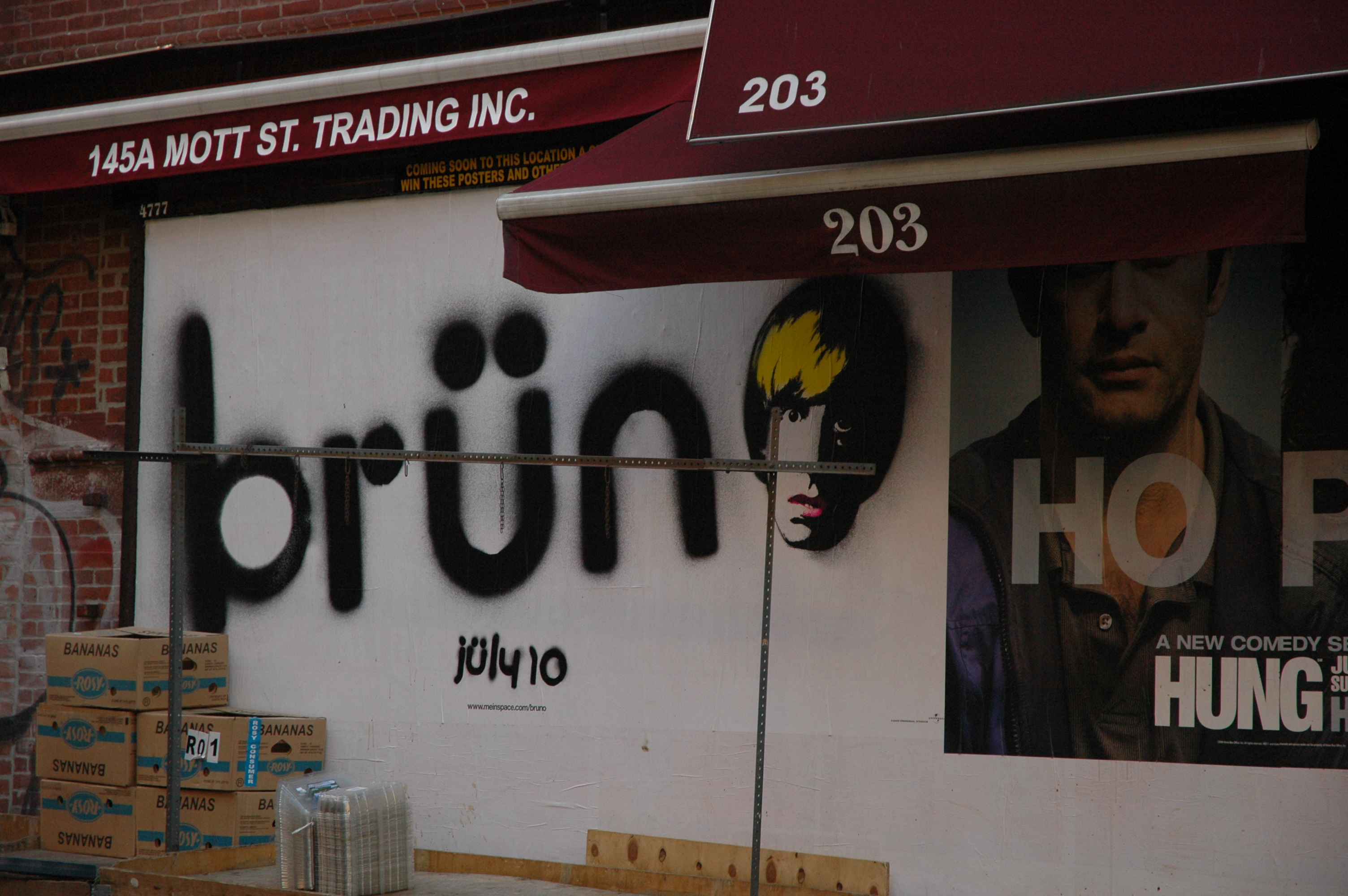 Advertisement in street art style for the "Brüno" movie of Sacha Baron Cohen; picture taken in Mott Street, SoHo